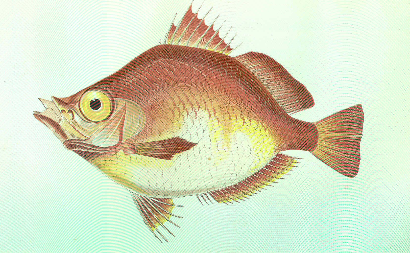 Boarfish Aper Zeus aper Capros aper Capros sanglier Subject: Pentacerotidae Tag: Fish